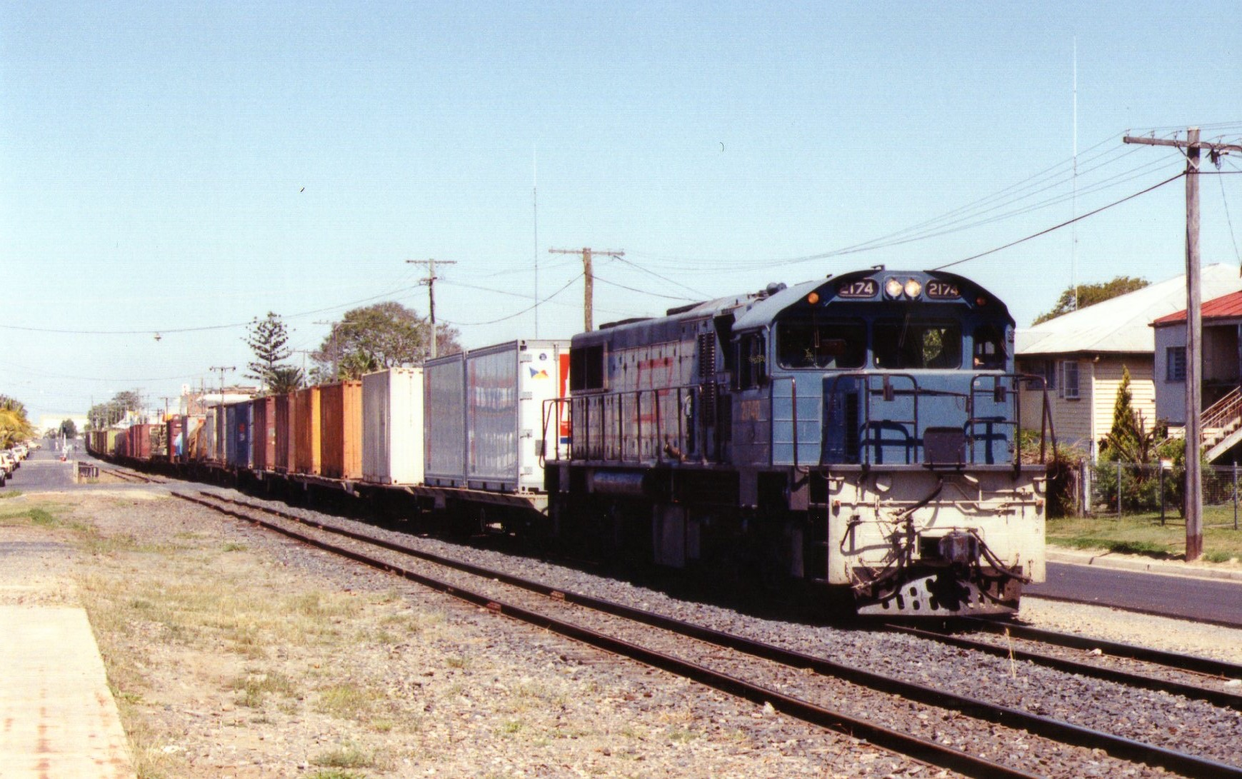 QR loco 2174 hauls a northbound goods train on the Denison St section of the NCL in Rockhampton. (The picture's date of 22 Feb 2014 is probably a scan date, judging from the weathering of the different loco livery in the other version shown, dated a year later.)